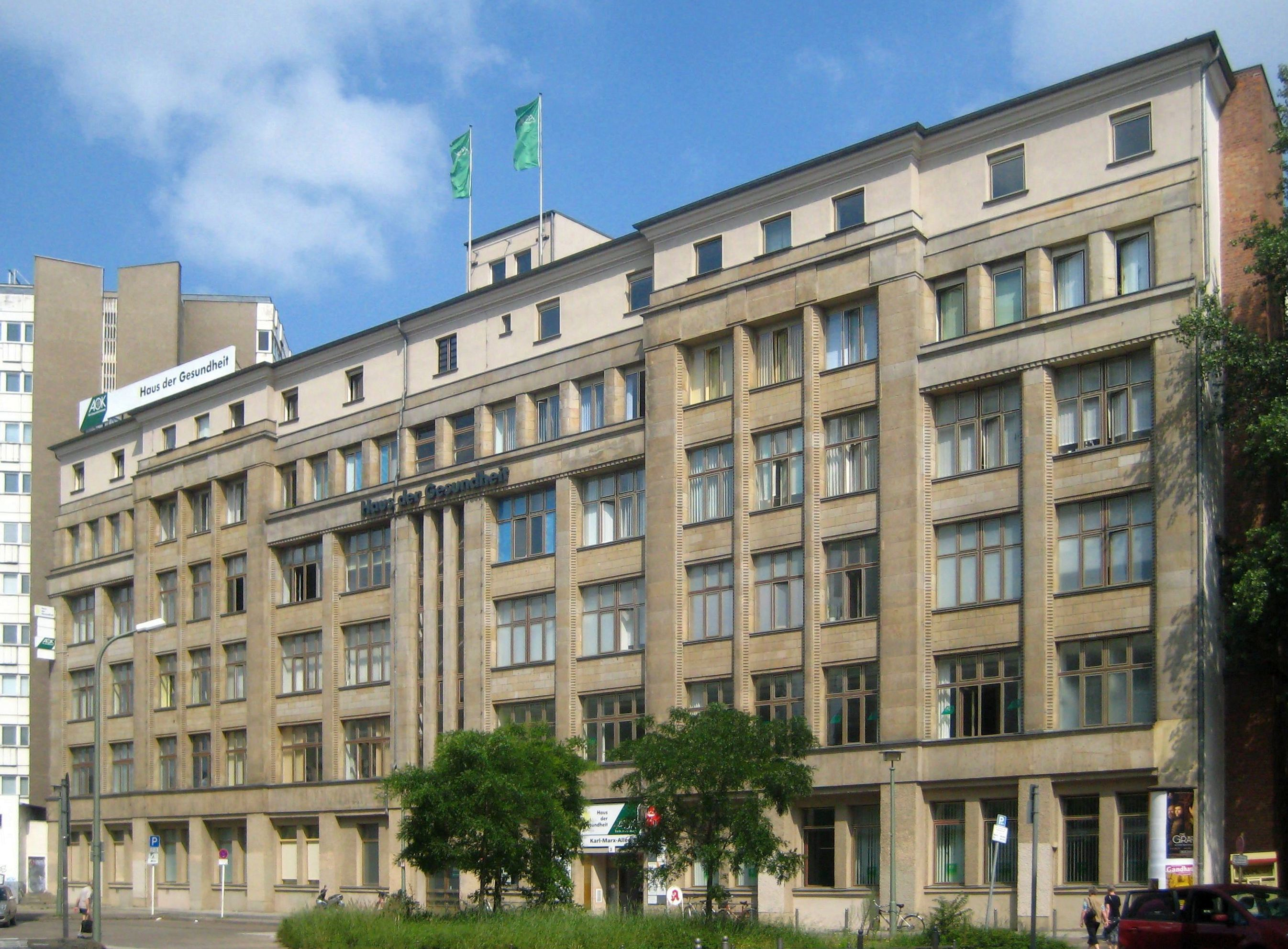 The "House of Public Health" at Karl-Marx-Allee No. 3 in Berlin-Mitte. It was built in 1913 as a commercial building on Landsberger Straße (which no longer exists). After WWII, when Stalinallee (as Karl-Marx-Allee had originally been called) was constructed, the building was left standing slightly off the new socialist boulevard. At the time its construction, the building's sandstone facade with columns was very modern. The unobstrusive facade was further simplified during restauration after the war when the attic was also added. In the interior, many original elements have been preserved, e.g. doors with brass covers or ceilings with stucco marble. A number of doctors and health-care service providers reside in the building. It has been designated a historic landmark.